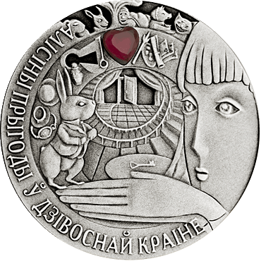 Belarus and the global community. Commemorative Coin "Alіsіny prygody ¢ dzіvosnay kraіne (" Alice's Adventures in Wonderland)